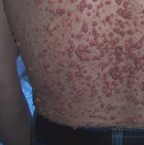 Neurofibroma of the skin. Patient suffering from Recklinghausen's disease.